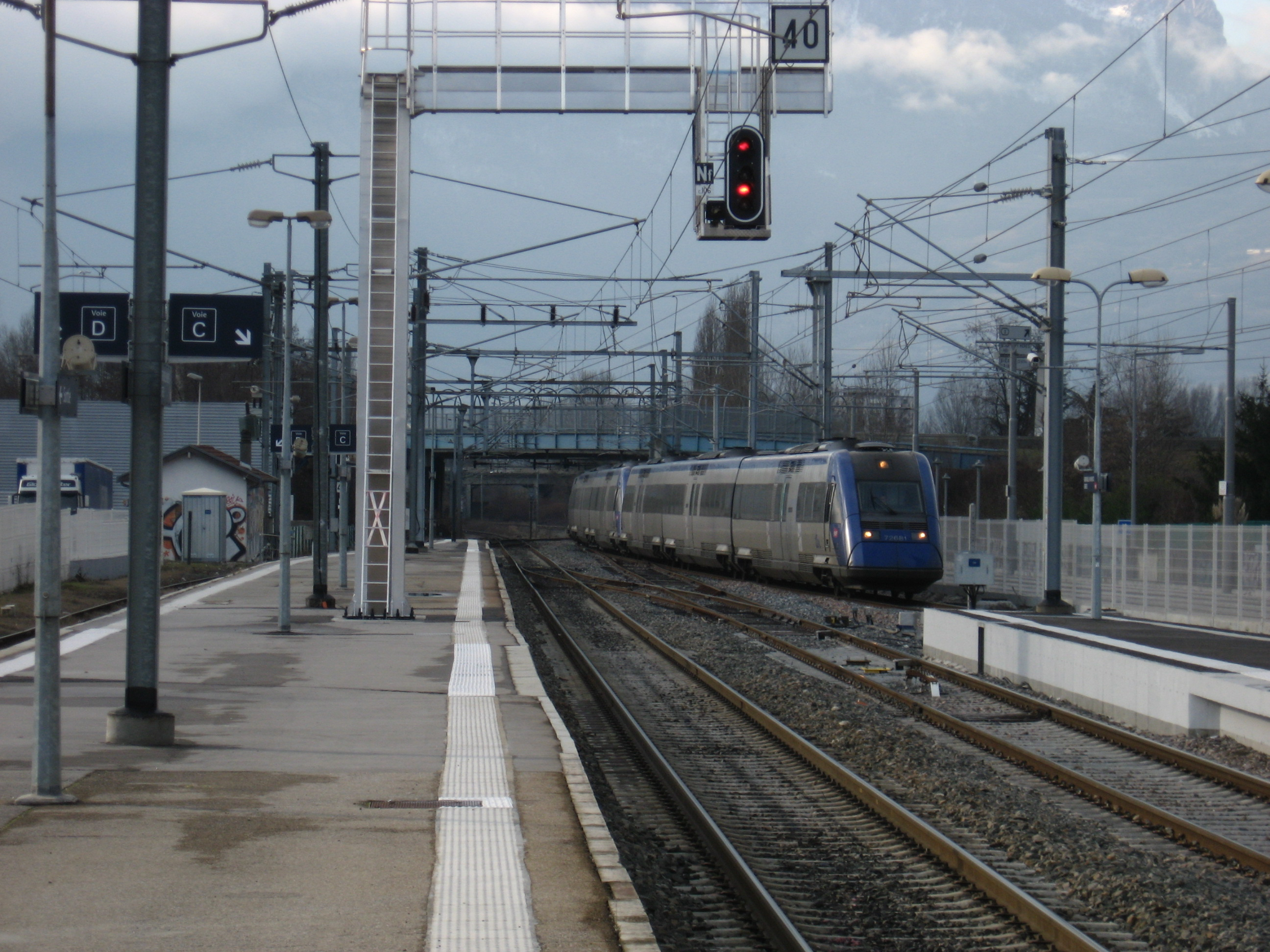 Diesel multiple unit in Grenoble_Giéres.